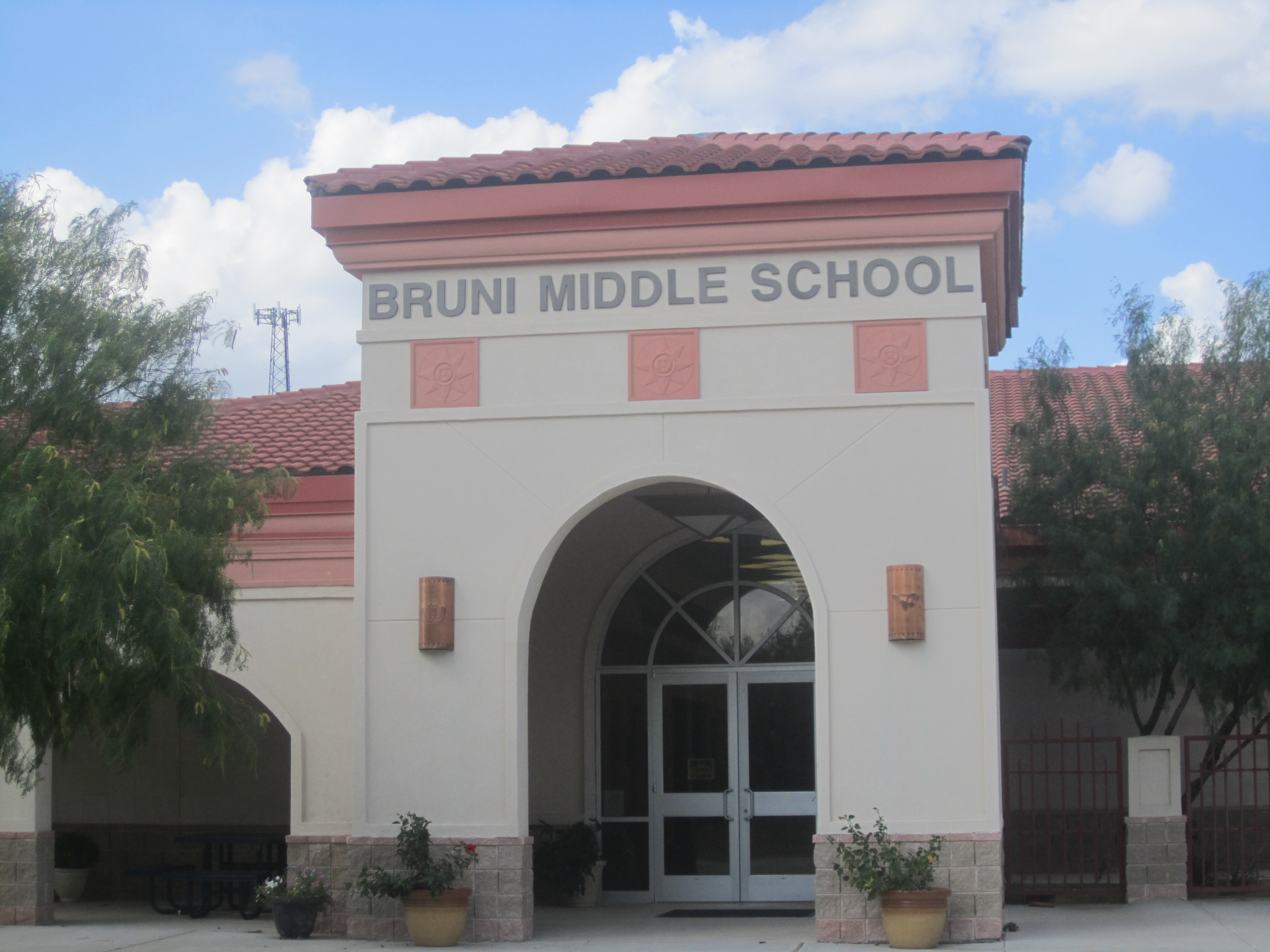 I took photo with Canon camera of Bruni Middle School in Bruni, TX.